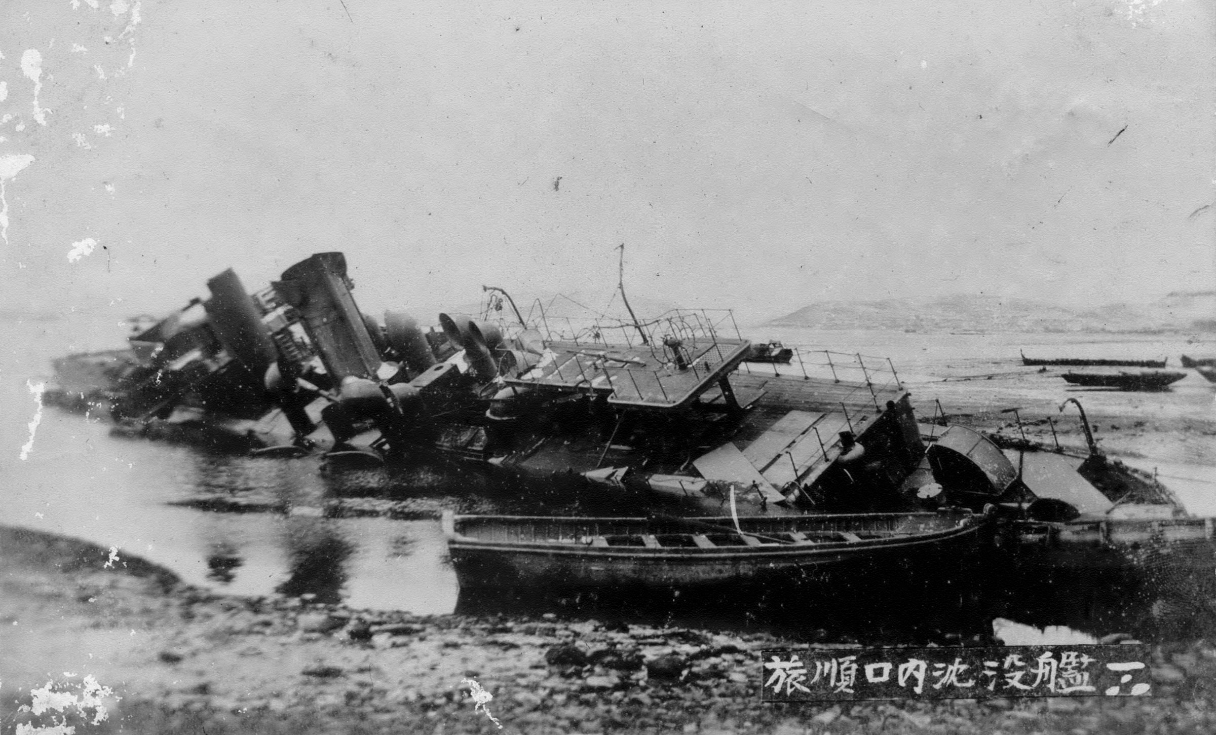 The Imperial Russian gunboat «Gilyak».